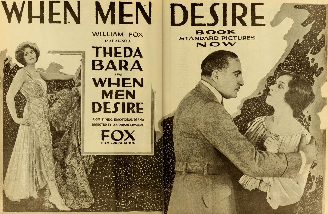 Ad for the American film When Men Desire (1919) with Theda Bara and an unidentified actor, on pages 1160 and 1161 of the March 1, 1919 Moving Picture World.